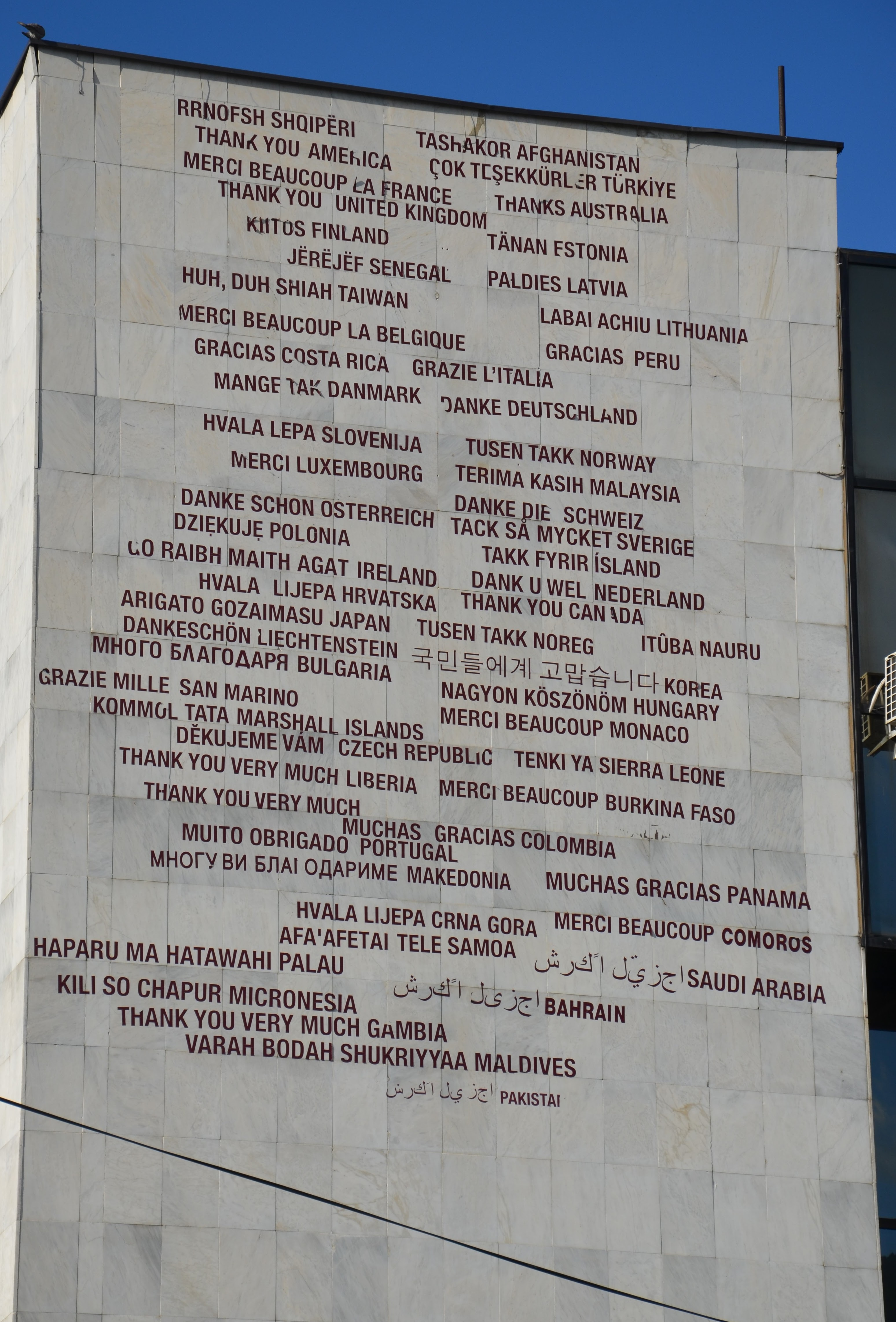 The facade of the Prizren Town Hall in Kosovo displaying thanks for countries that had recognized Kosovo's independence